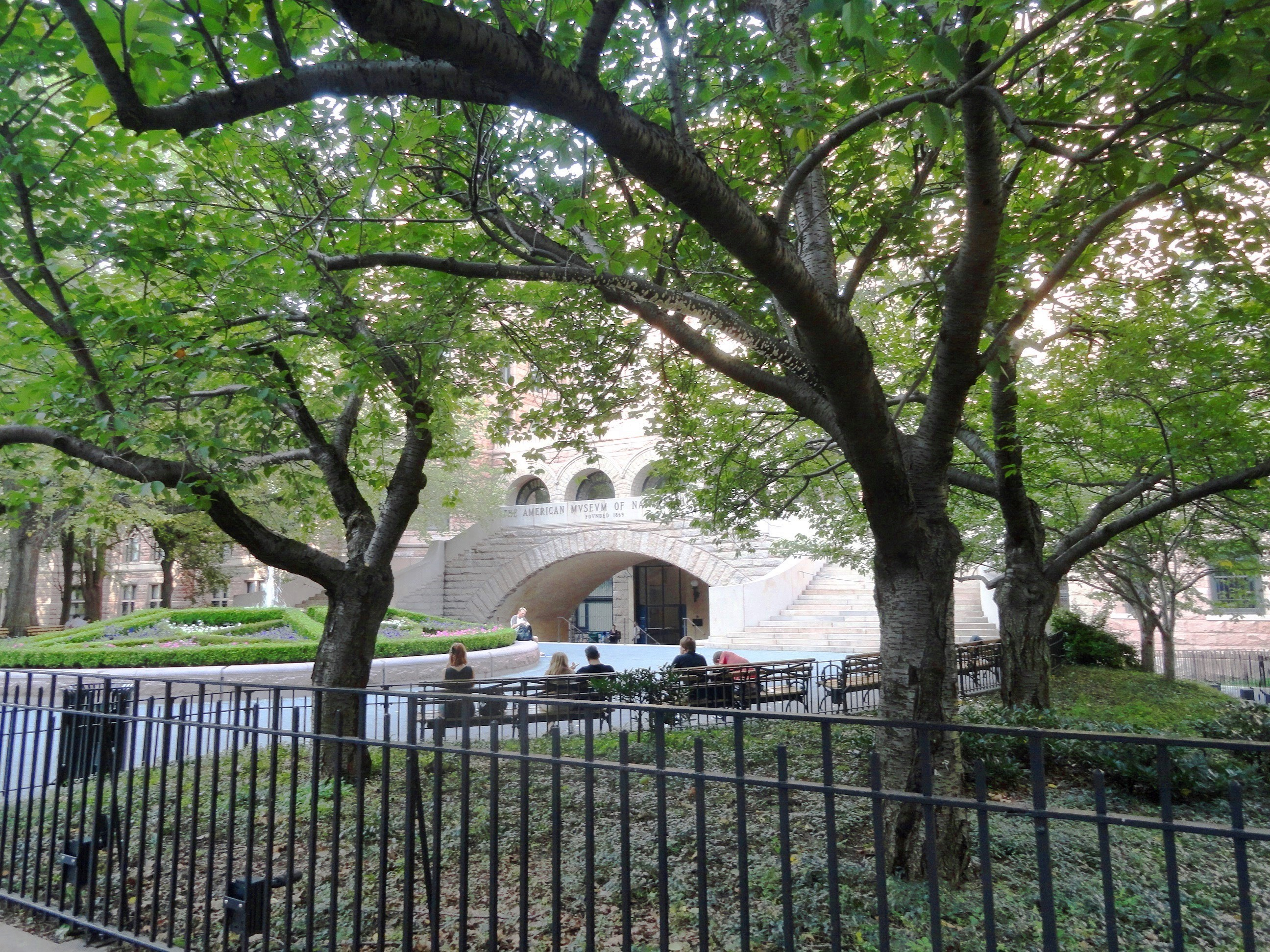 This is picture of "Theodore Roosevelt Park", the grounds of the American Museum of Natural History